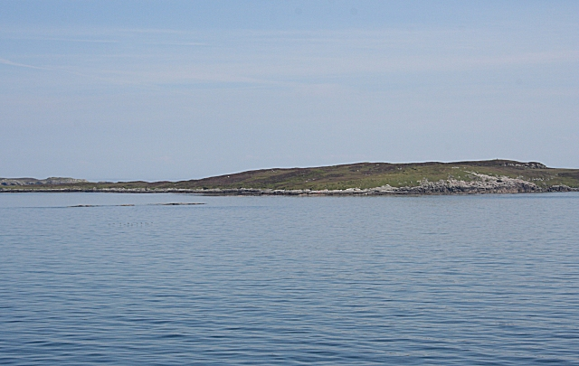 Grodhaigh Grodhaigh or Groay extends into this square. The trig point on its summit, all of 26 metres above sea level, is just visible in this view. (To locate this shot accurately I pressed the 'mark' facility of the GPS in the left hand simultaneously with pressing the shutter of the camera in the right hand.)